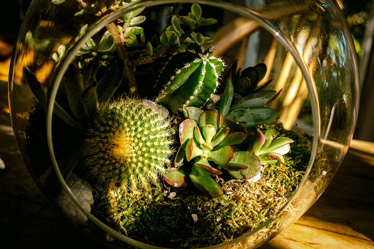 An open terrarium with succulents and cactus